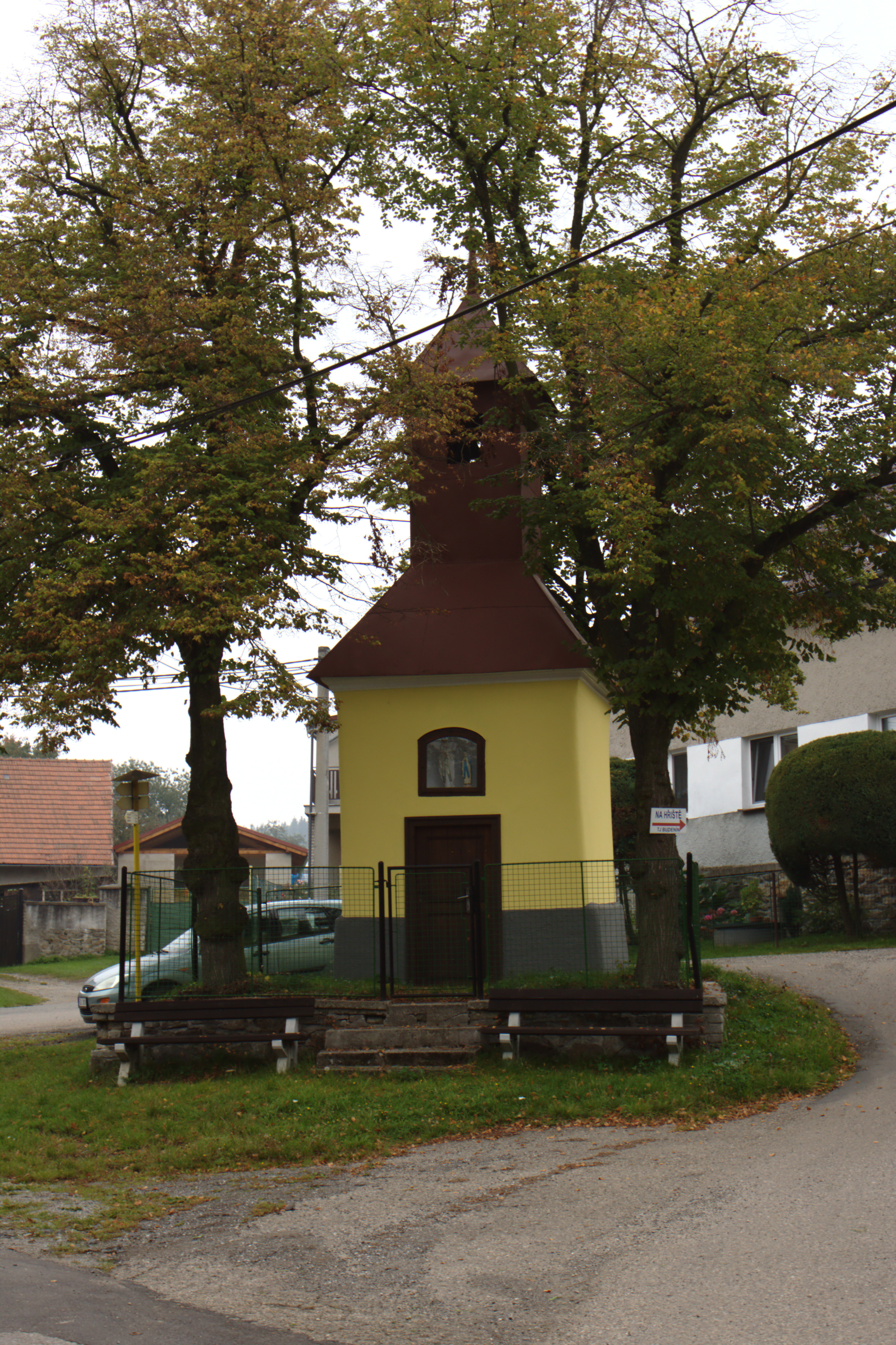 A chapel at the common in Budenín, Central Bohemia, CZ